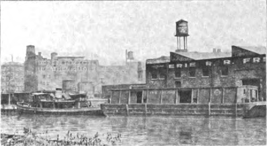 The Erie Railroad's car float operations on the Chicago River. A tug and barge are at Erie Street.